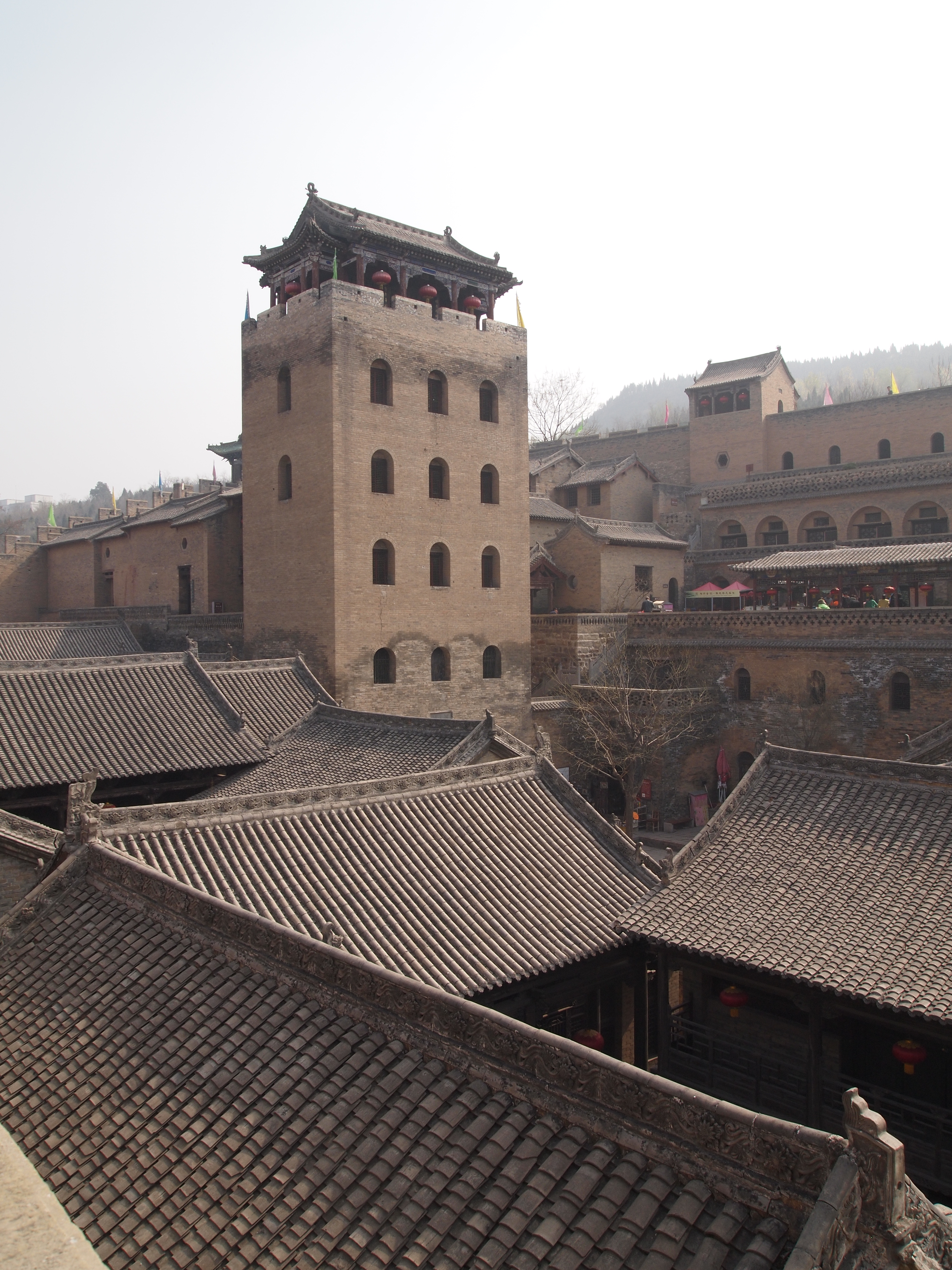 The Tower of Rivers and Mountains in the House of the Huangcheng Chancellor in Jincheng, Shanxi.